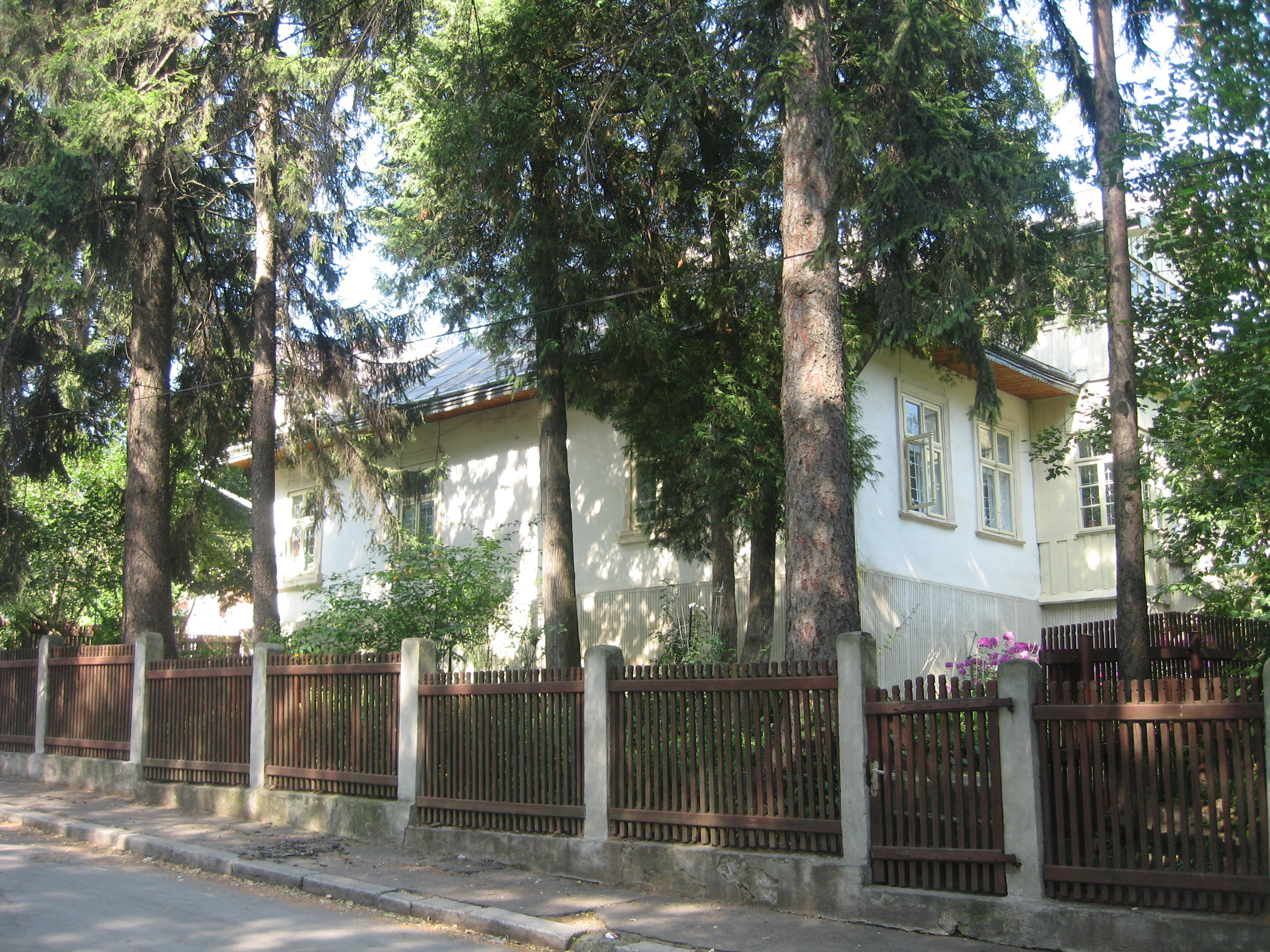 Simeon Florea Marian Memorial House in Suceava.